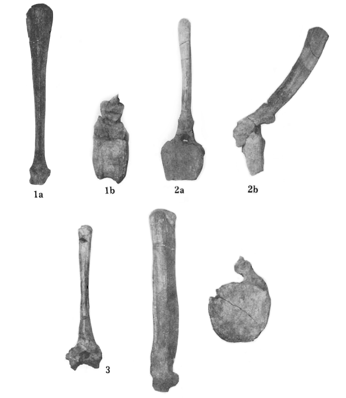 Barsboldia sicinskii gen. et sp.n., type specimen ZPAL MgD-I/l10, Nemegt Formation, N Nemegt, Nemegt Basin, Gobi Desert, Mongolia 1. Fourth caudal vertebra. 2. ?Seventeenth caudal vertebra. 3. Neural arch of ?eighteenth caudal vertebra. a posterior, b IateraI views.